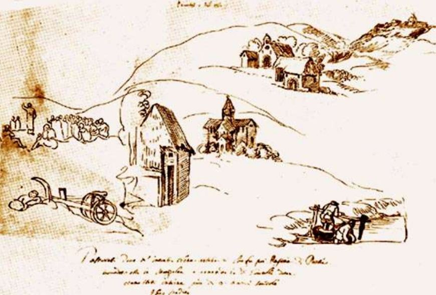 Sermon in Guria